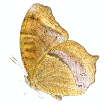 Cyllogenes janetae male